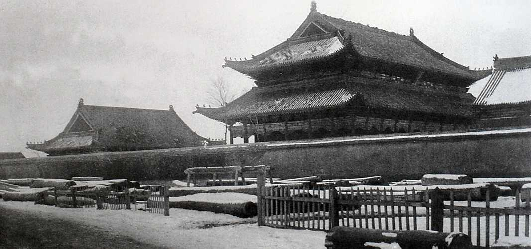 Jilin Confucian Temple in 1925